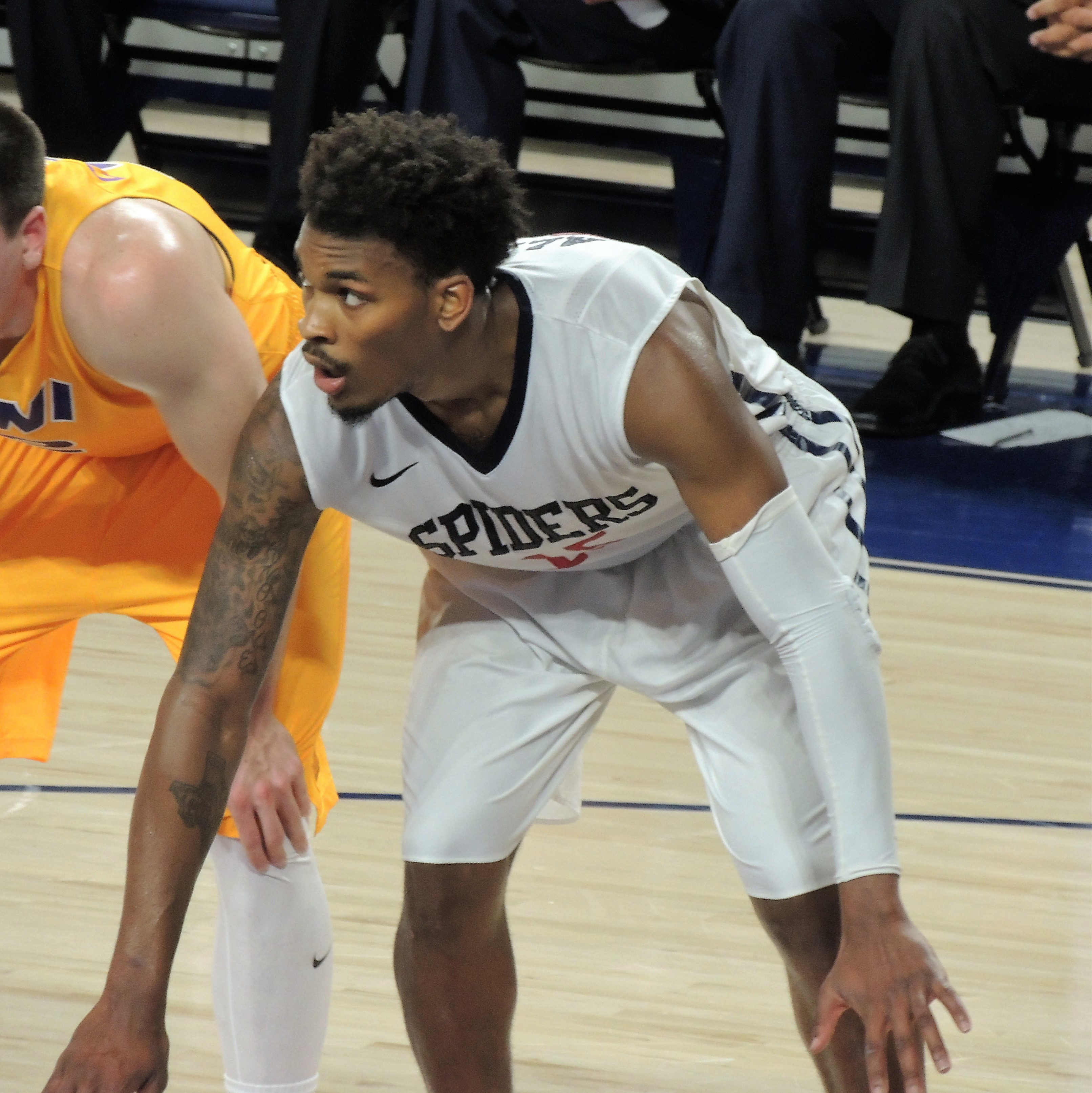 University of Richmond forward Terry Allen prepares to box out in a game against Northern Iowa